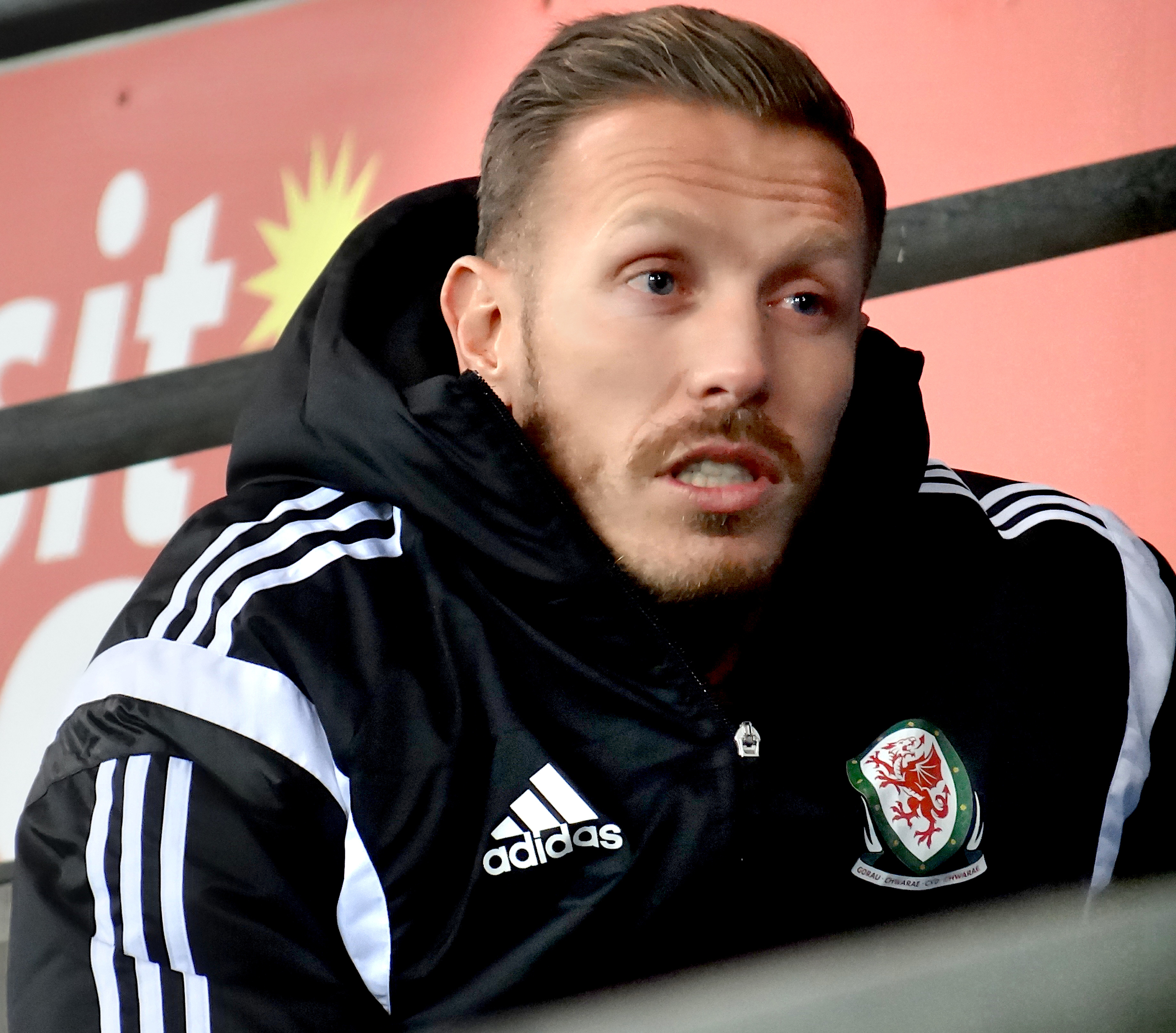 Footballer Craig Bellamy in 2014.